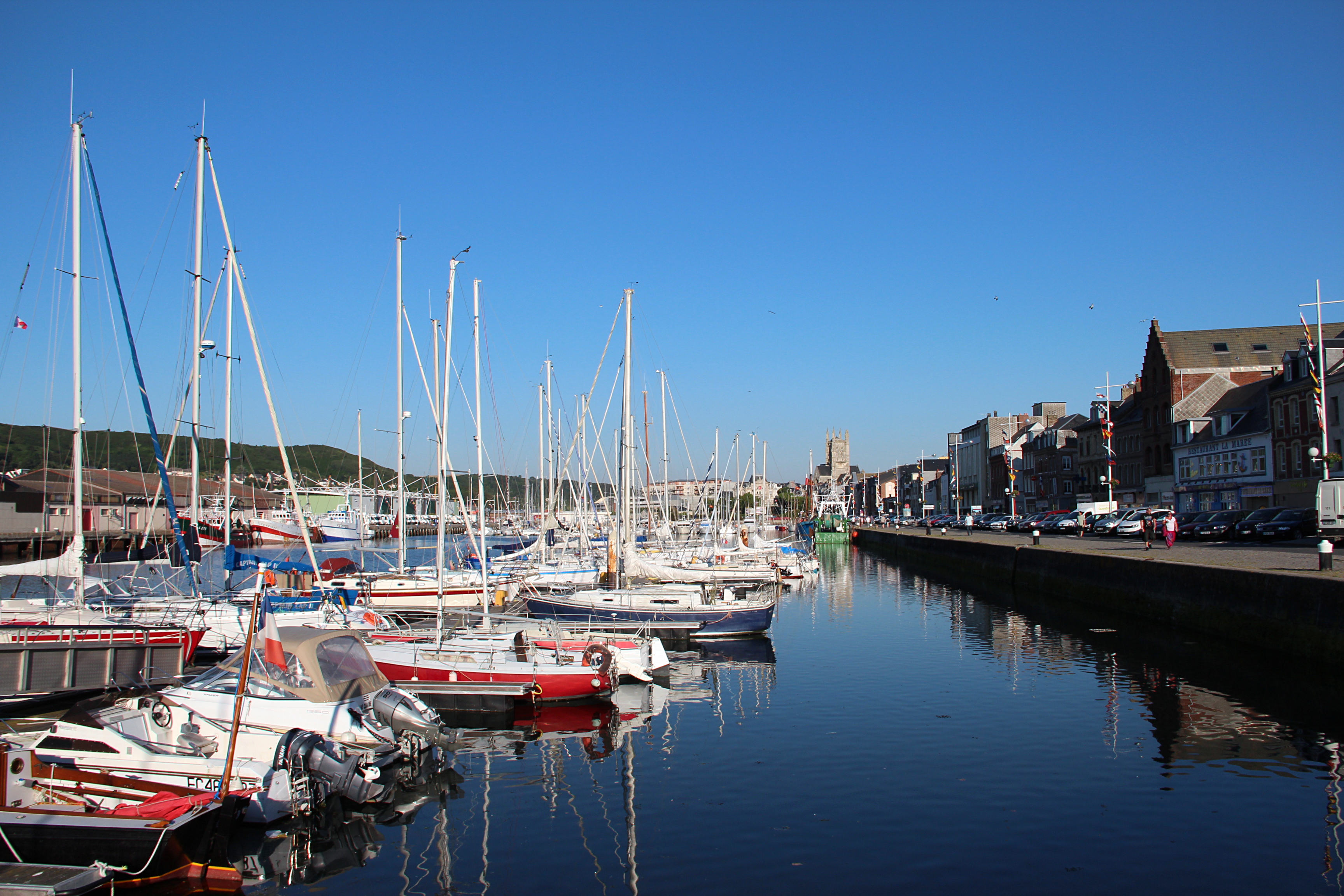 Fécamp (Seine-Maritime France), Pier Berigny, Berigny Boulevard and St. Stephen's church.